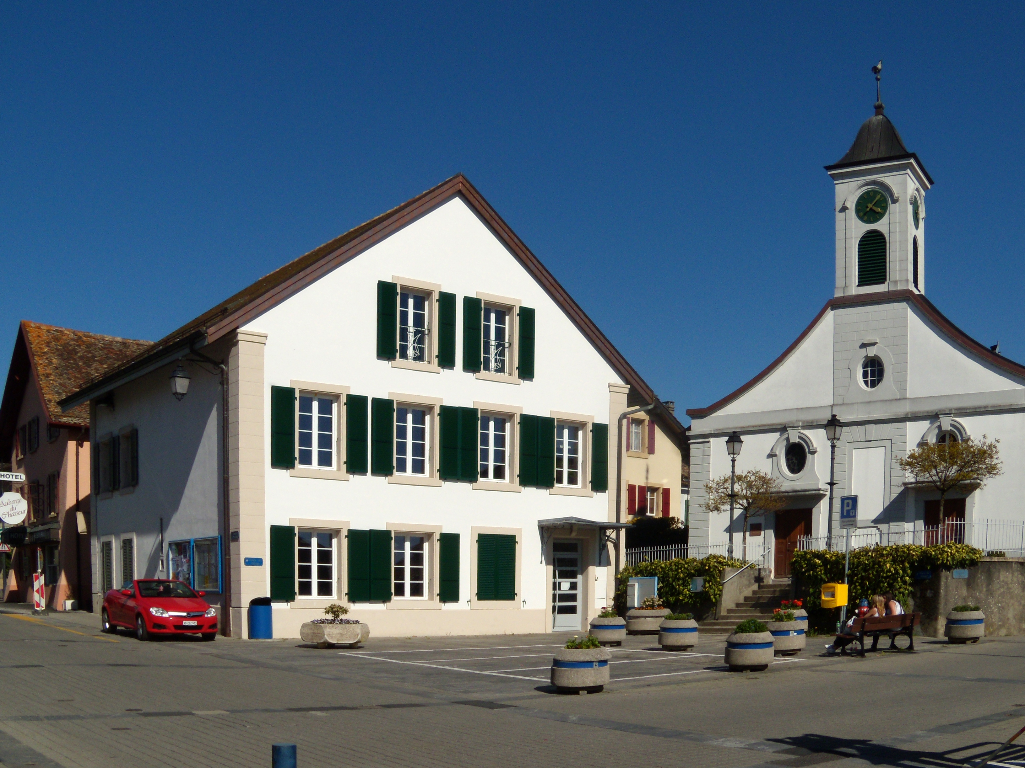 Préverenges (Switzerland), with protestant church